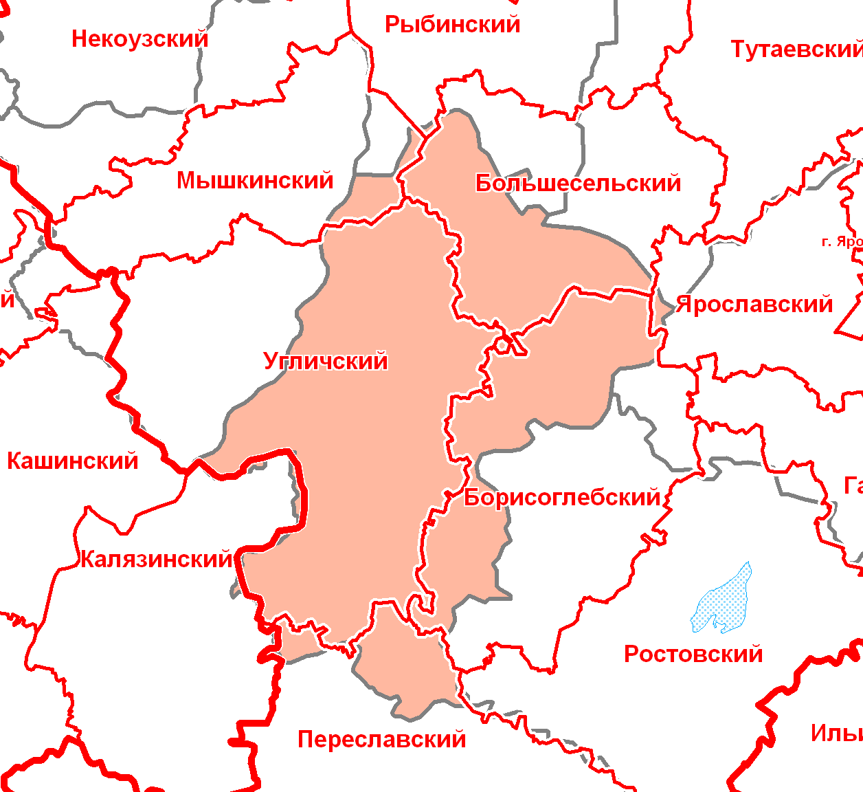 Maps of Yaroslavl Governorate